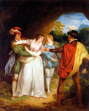 Valentine rescuing Silvia from Proteus in Act 5, Scene 5 in Two Gentlemen of Verona